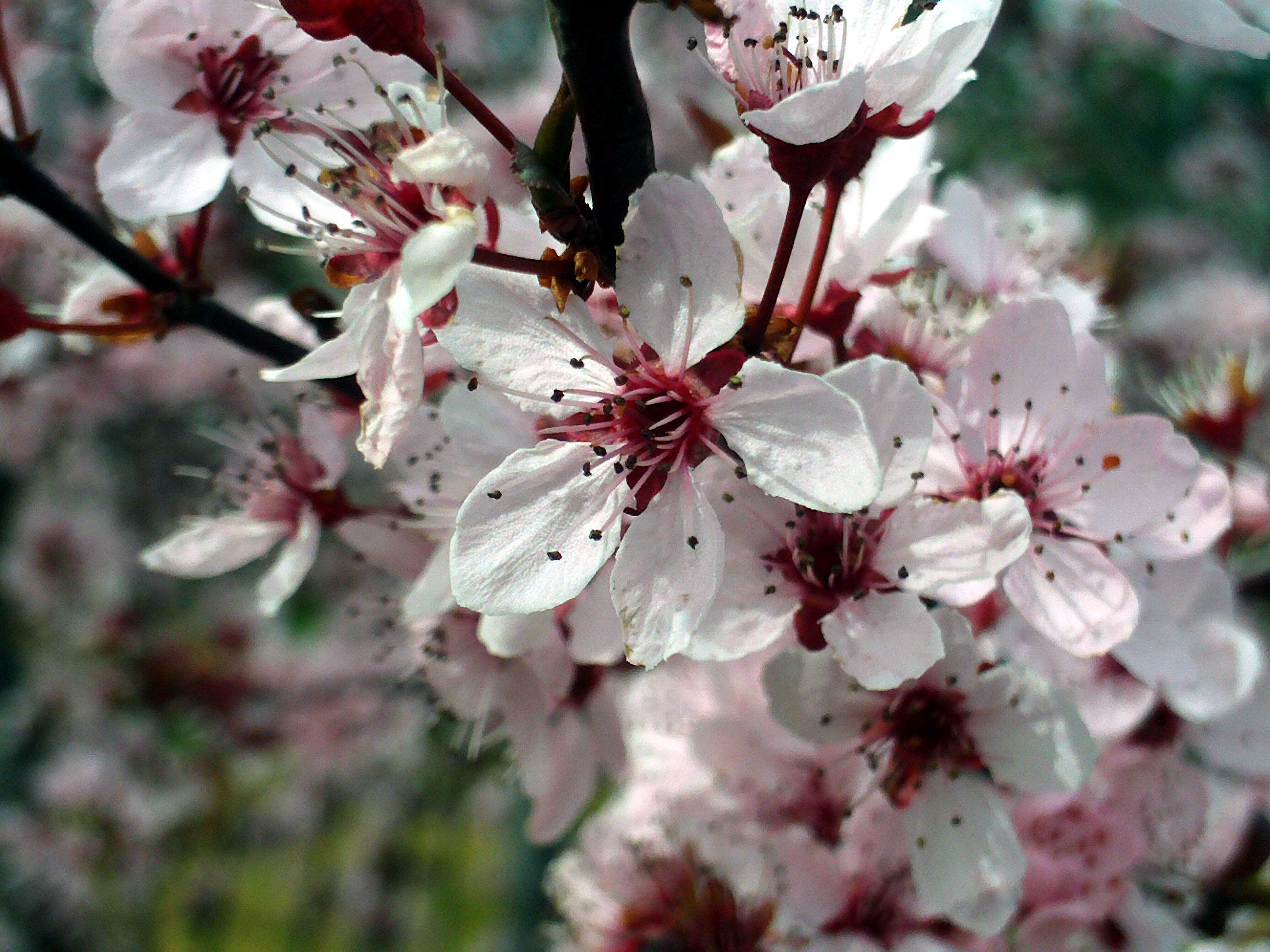 Prunus cerasifera var. atropurpurea flower close up, Dehesa Boyal de Puertollano, Spain